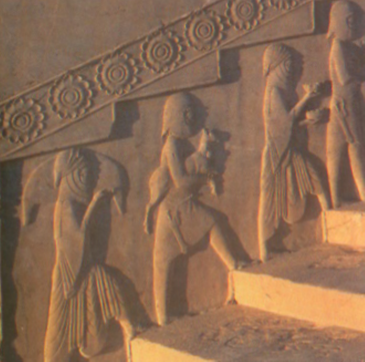 Hadish palace where Xerxes I lived. Persepolis